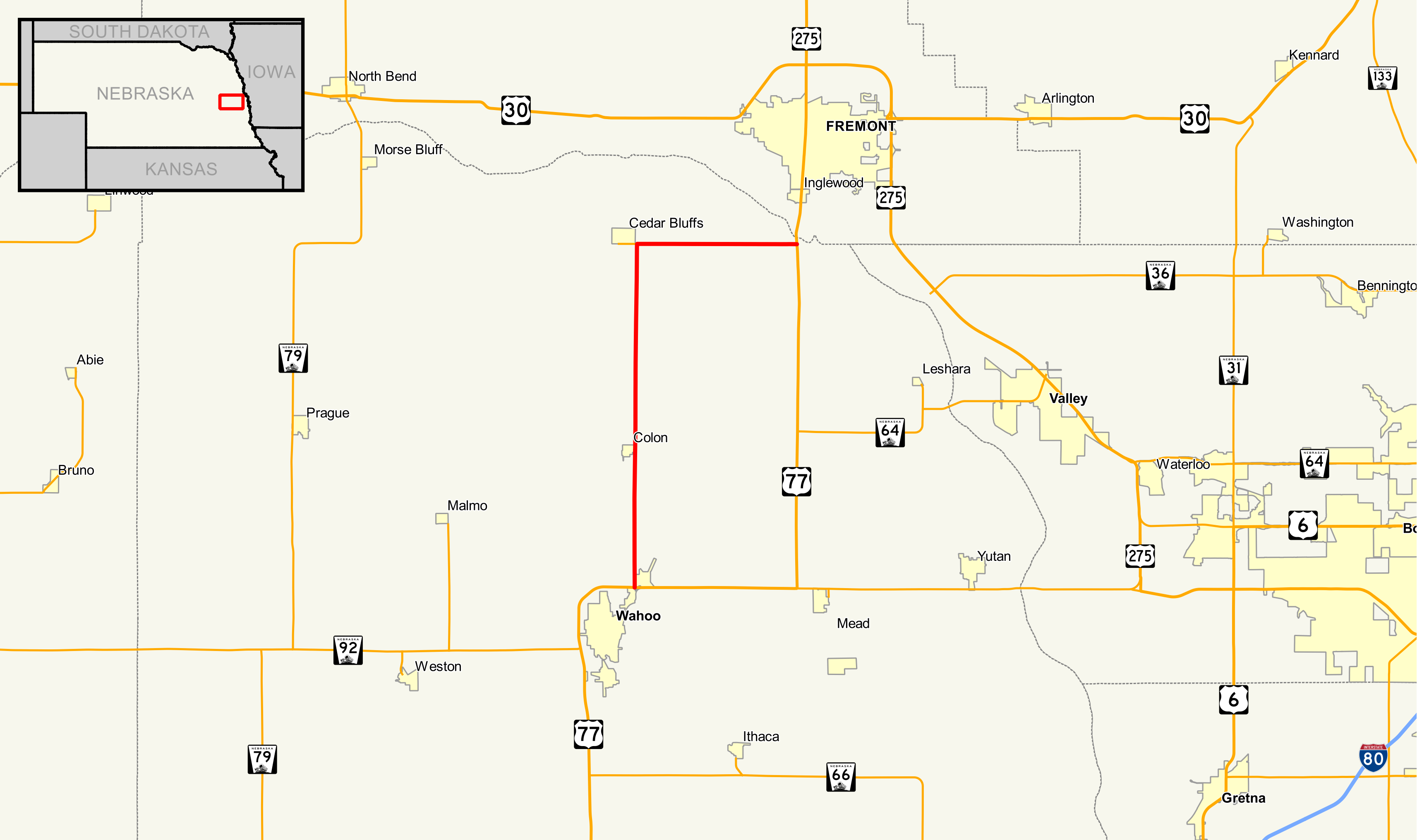 Map of Nebraska Highway 109 Data Sources: Nebraska Highways - - Dec 2016 Nebraska County Boundaries - - Dec 2016 Nebraska City Boundaries - - Dec 2016 This PNG graphic was created with QGIS